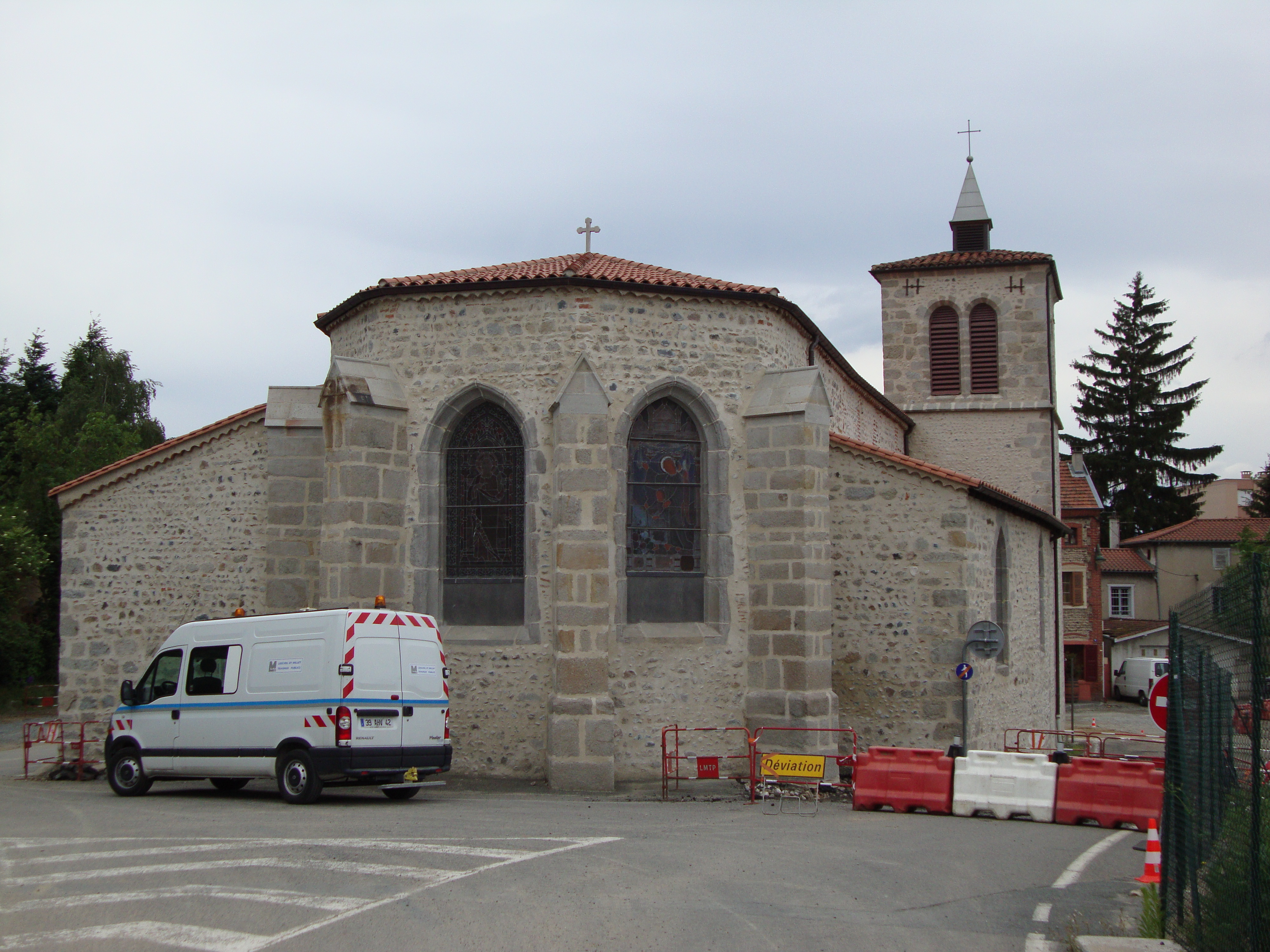 Montrond-les-Bains (Loire, Fr) église St. Roch